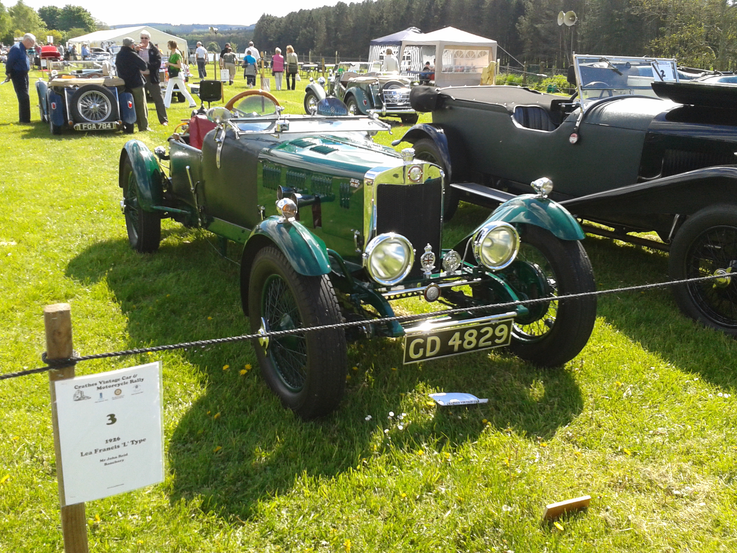 Lea Francis L type 1926Crathes Vintage Car & Motorcycle Rally 26 May 2013